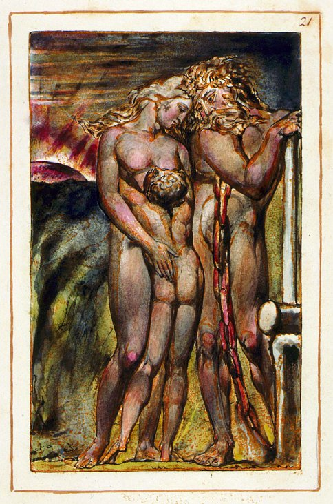 Plate from The Book of Urizen, copy G, in the collection of the Library of Congress. Object 21 (Bentley 21, Erdman 21, Keynes 21), 16.6 x 10.2 cm